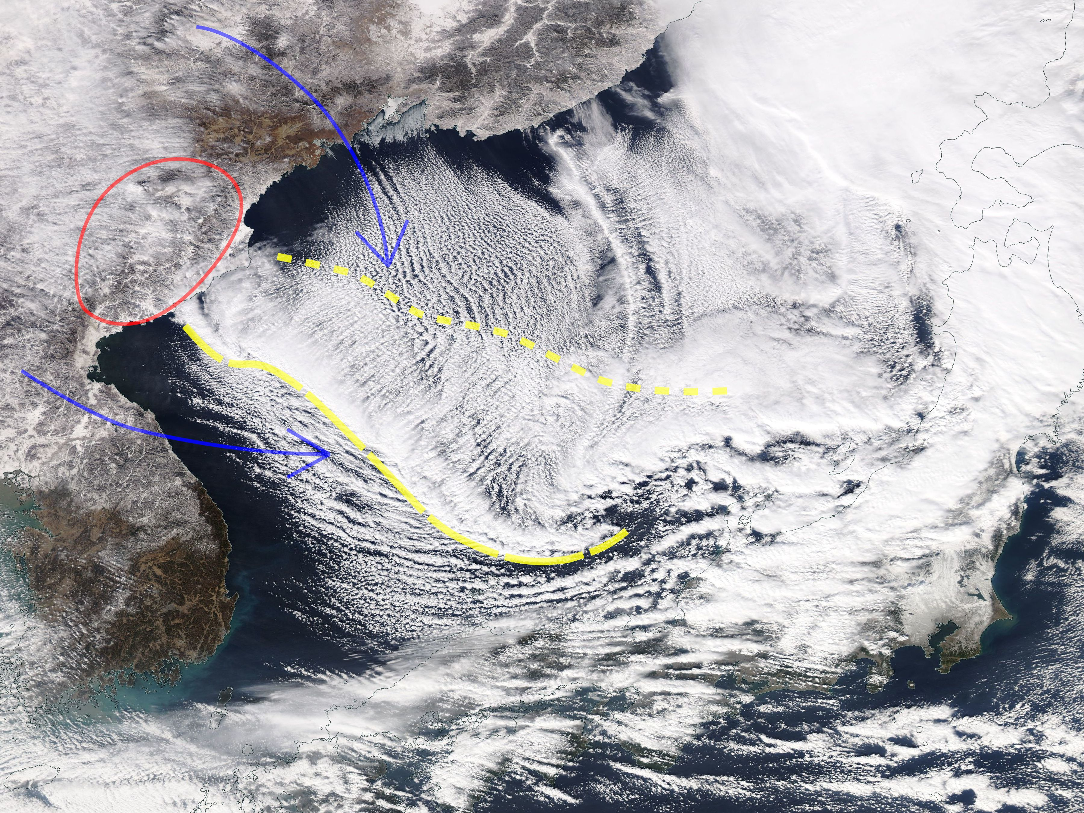 Winter streaky convective clouds and its dense area by JPCZ(Japan sea Polar air mass Convergence Zone), over the Sea of ​​Japan.